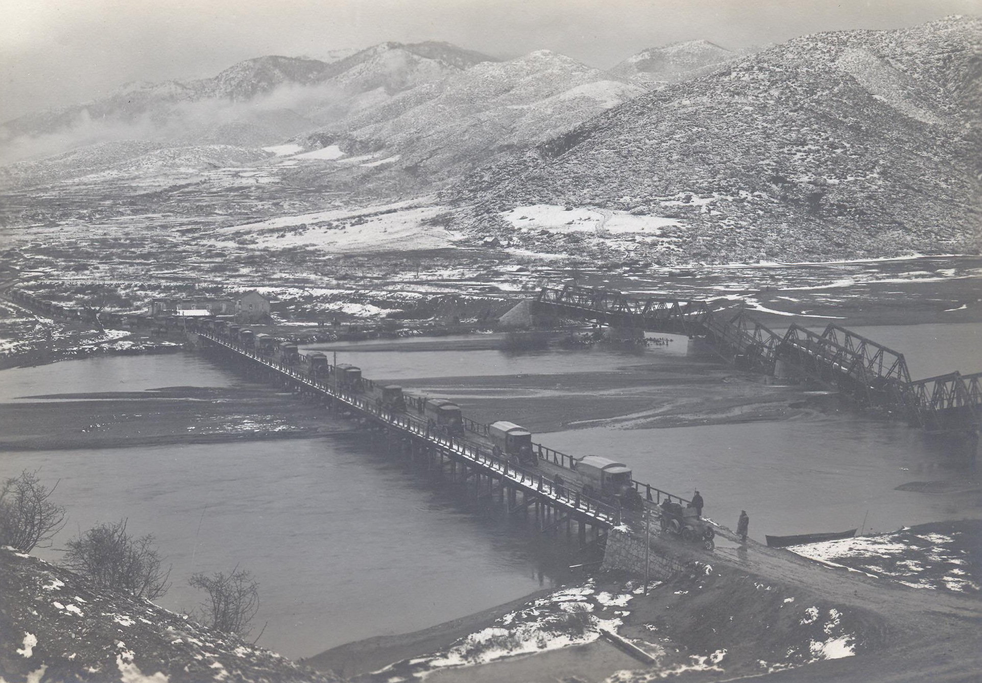 World War I, Macedonian Front